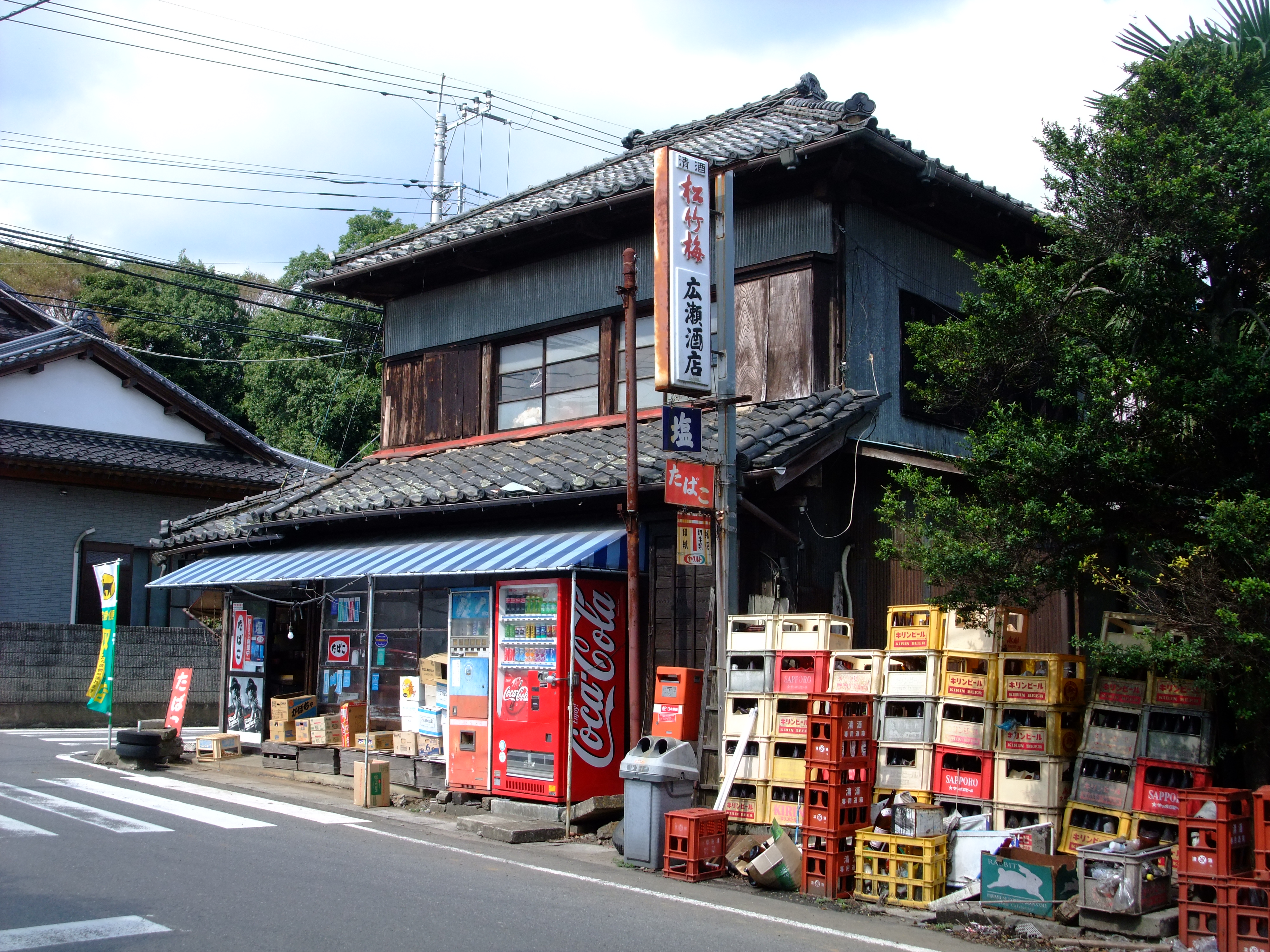 A liquor store in Tsukuba, Ibaraki Prefecture, Japan.